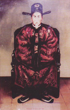 Portrait of Pham Than Duat, mandarin of the Nguyen dynasty in Vietnam